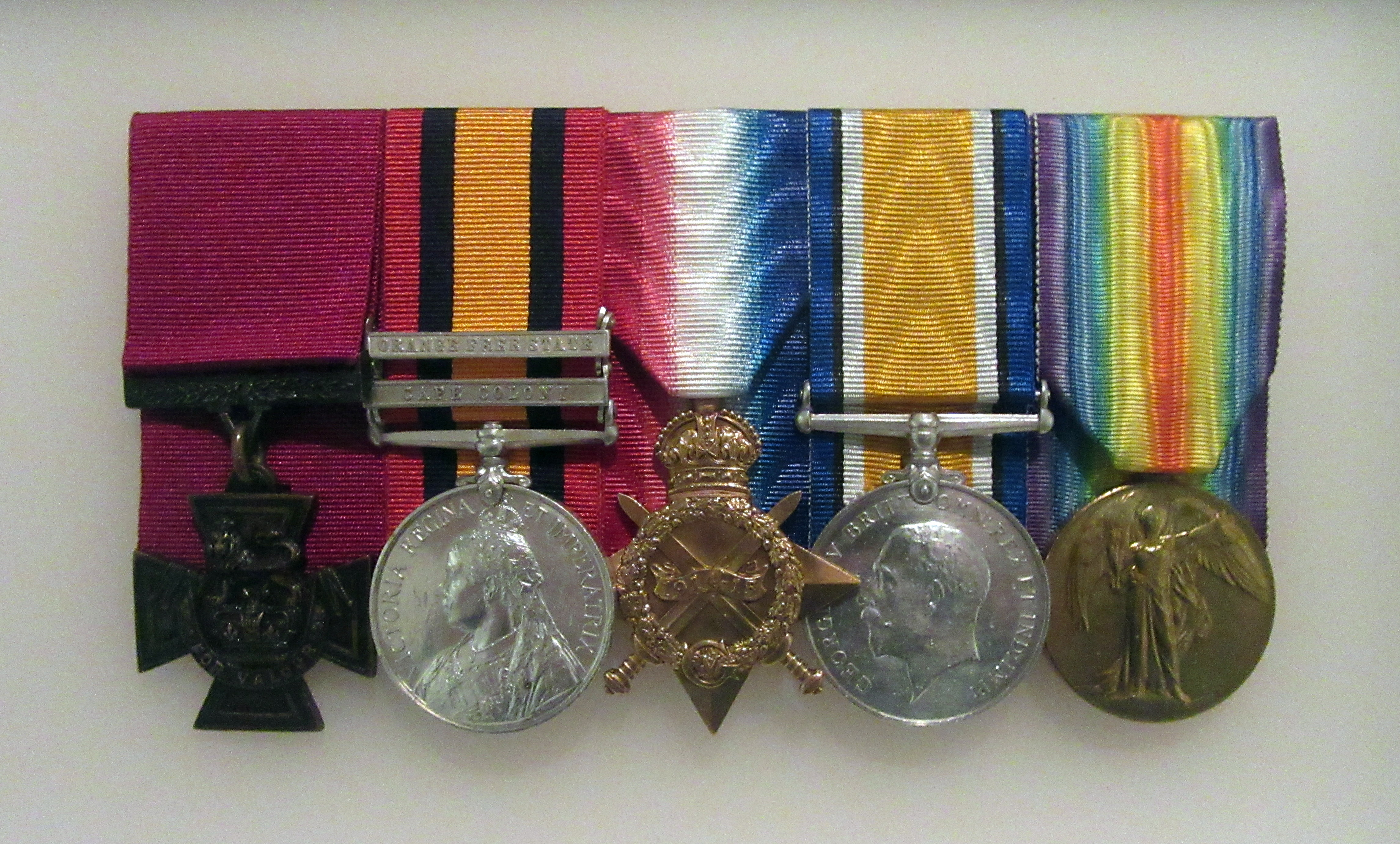 The Victoria Cross and other medals awarded to Wilbur Dartnell on display at the Australian War Memorial, Canberra